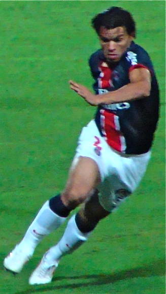 Marcos Ceara (PSG), Lille LOSC vs PSG (2010-2011)